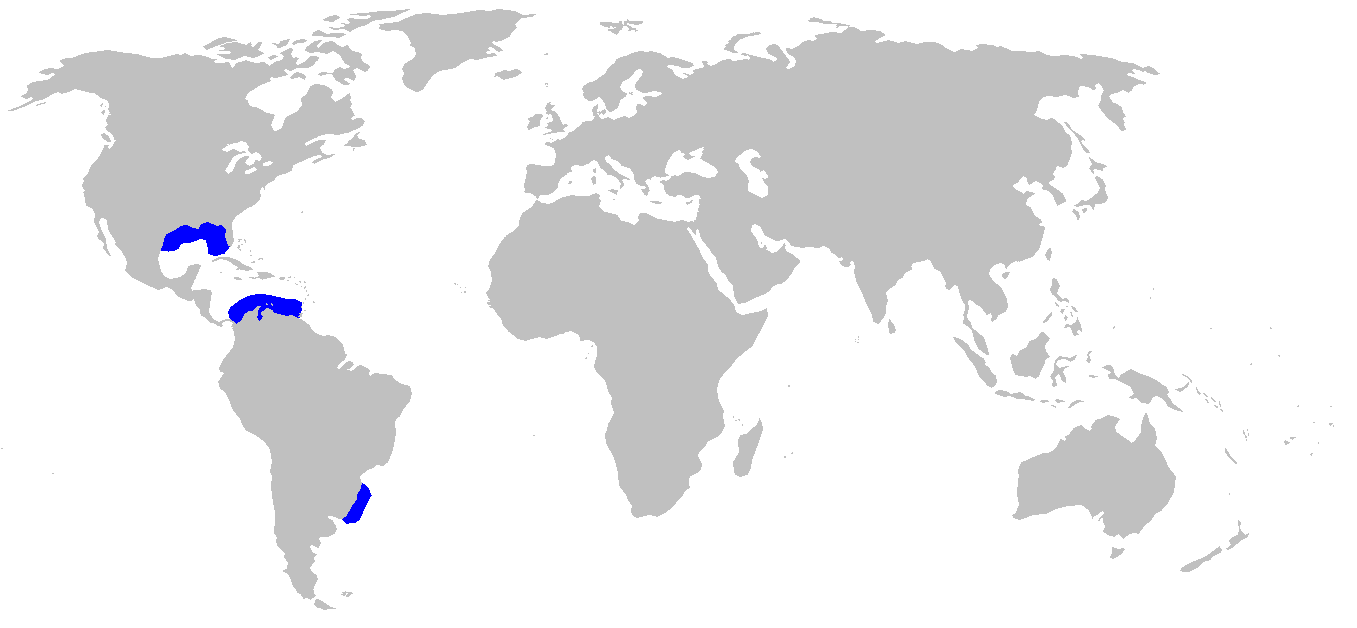 Distribution map for Mustelus norrisi